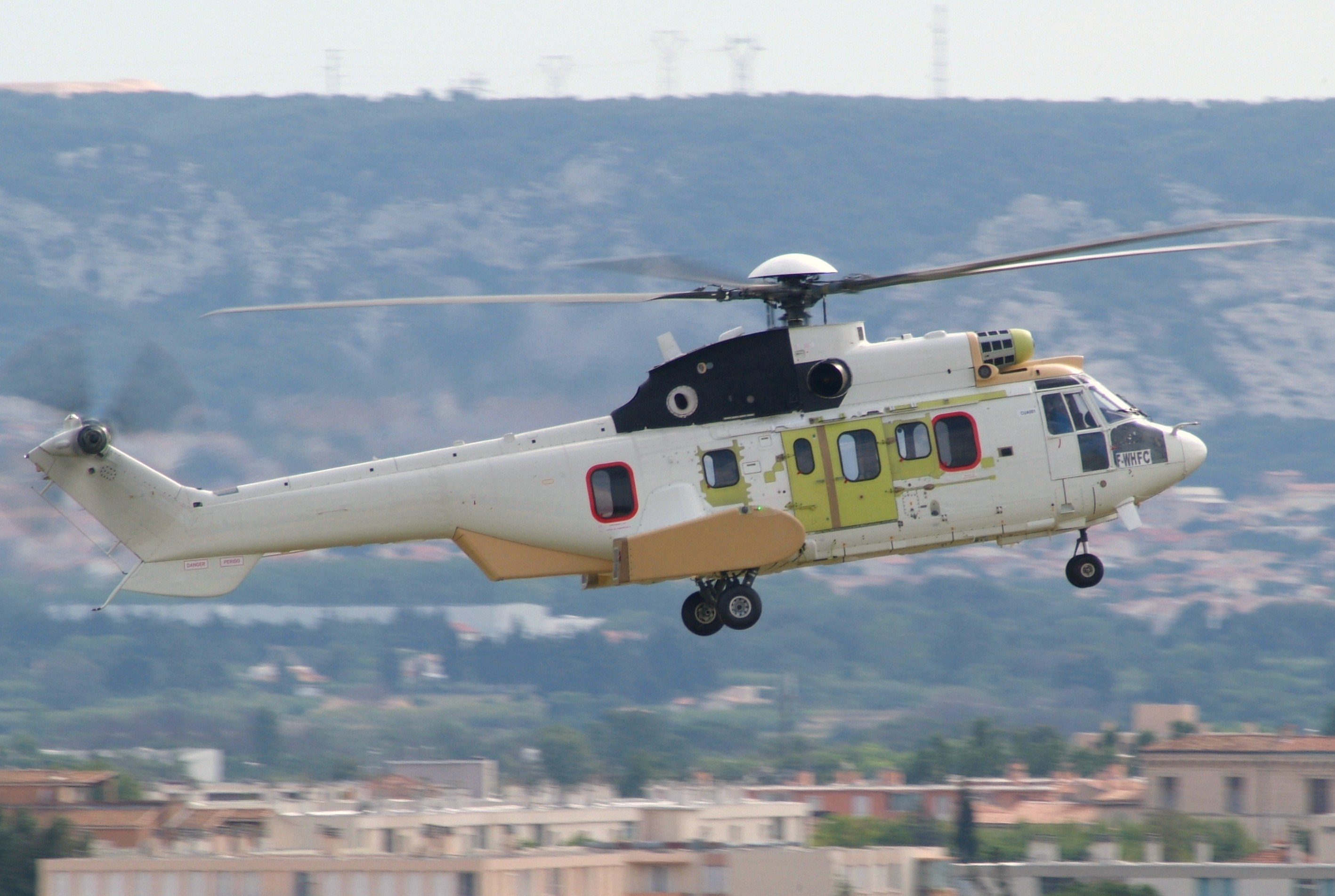 The customer code , CUA 001, may suggest that this is going to a Chinese company